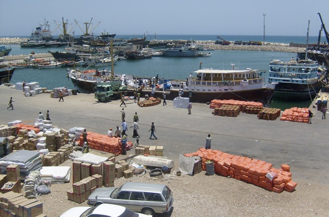 Bosaaso port